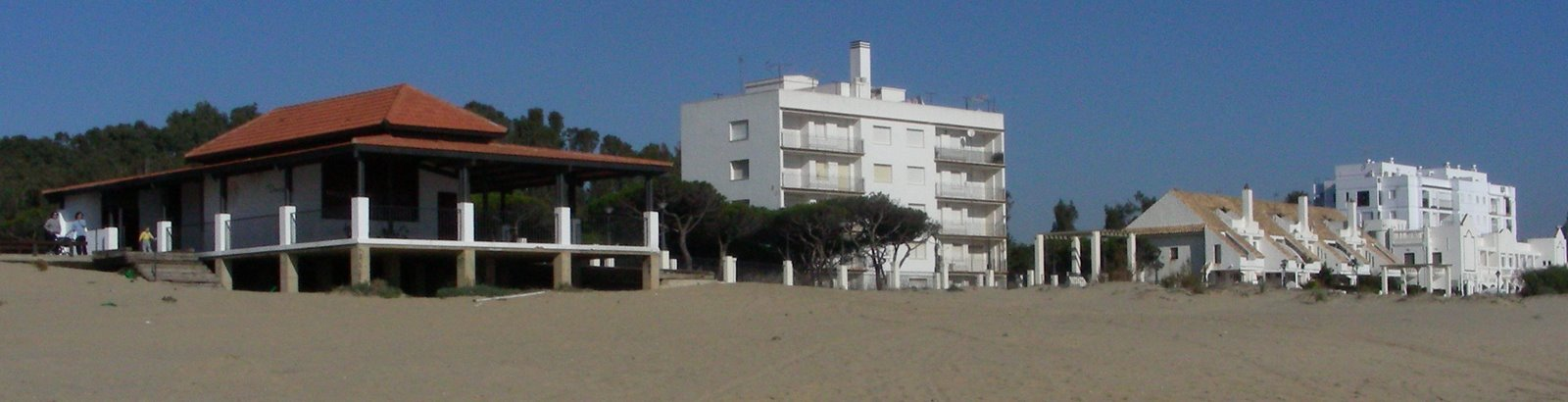 View of the Central beach of Isla Cristina, (Spain)